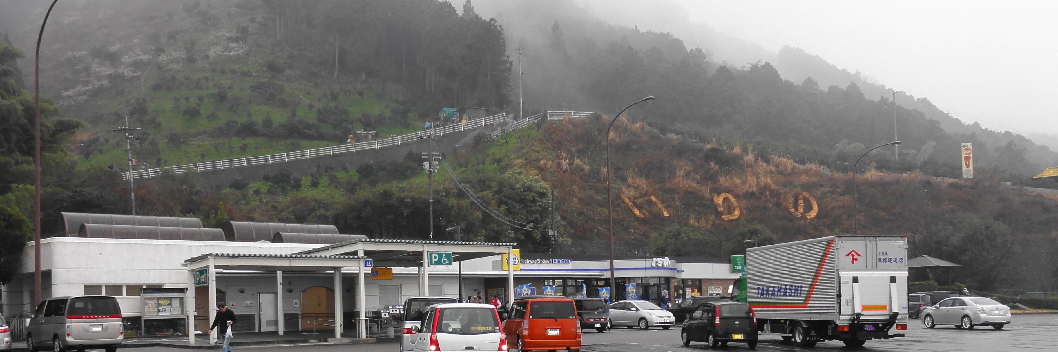 Irino Parking Area,Ehime prefecture, Japan